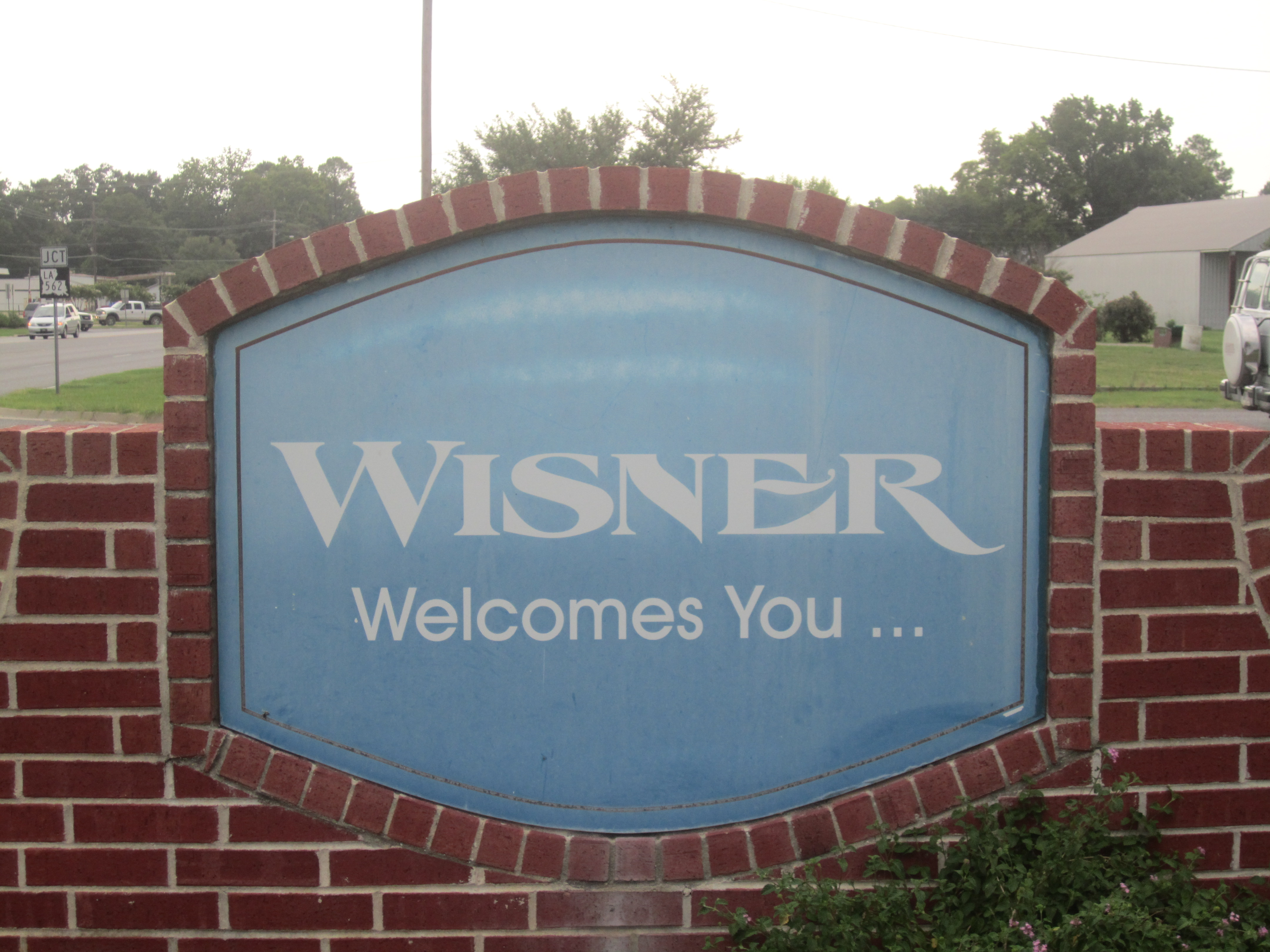 I took photo with Canon camera in Wisner, LA.